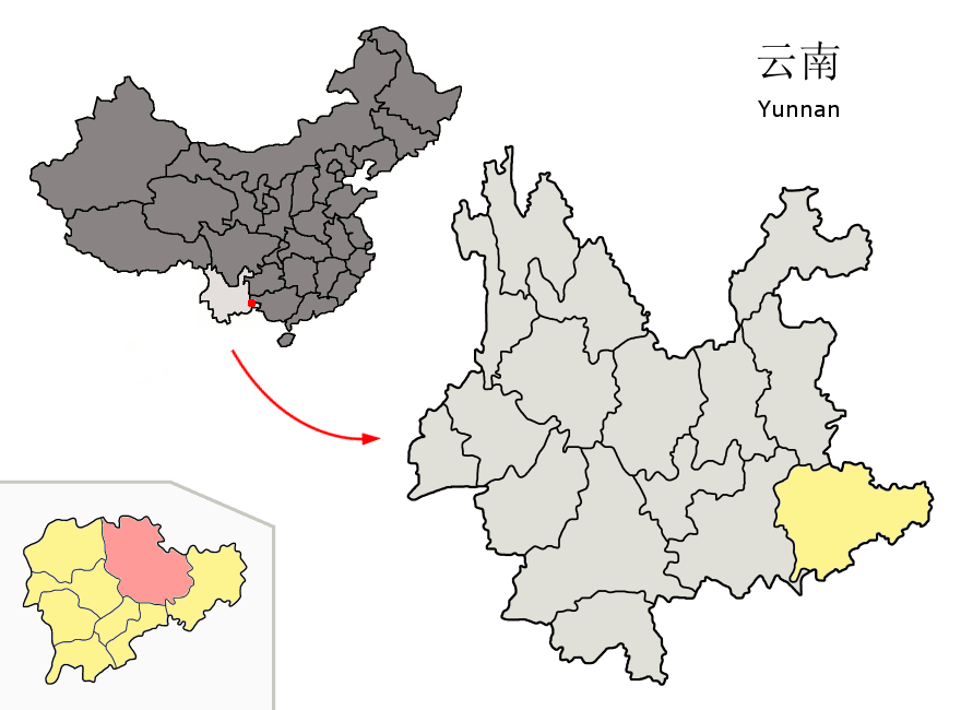 Location of Guangnan County (pink) and Wenshan Prefecture (yellow) within Yunnan province of China Map drawn in october 2007 using various sources, mainly : Yunnan province administrative regions GIS data: 1:1M, County level, 1990 Yunnan Counties map from